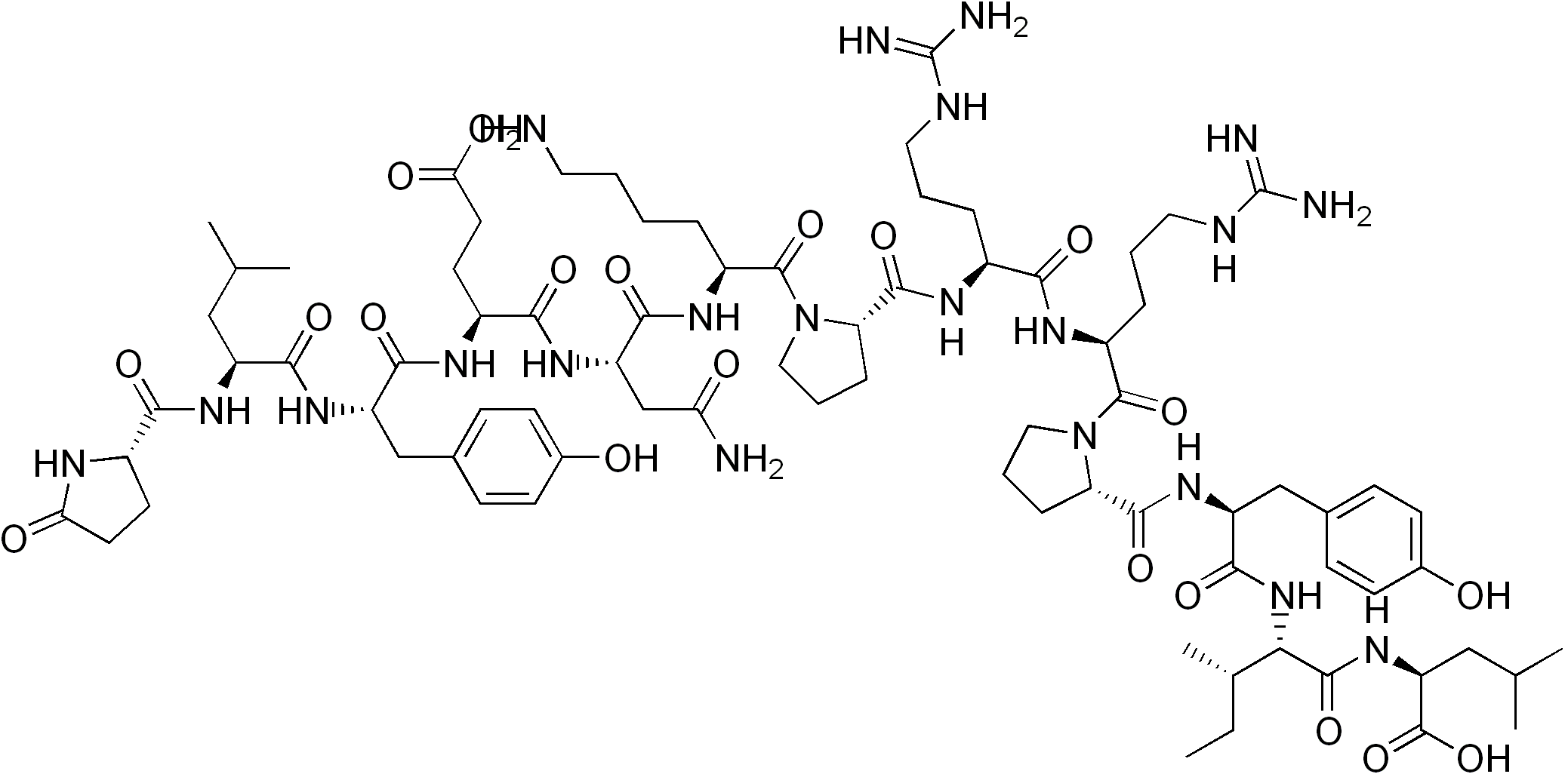 chemical structure of neurotensin